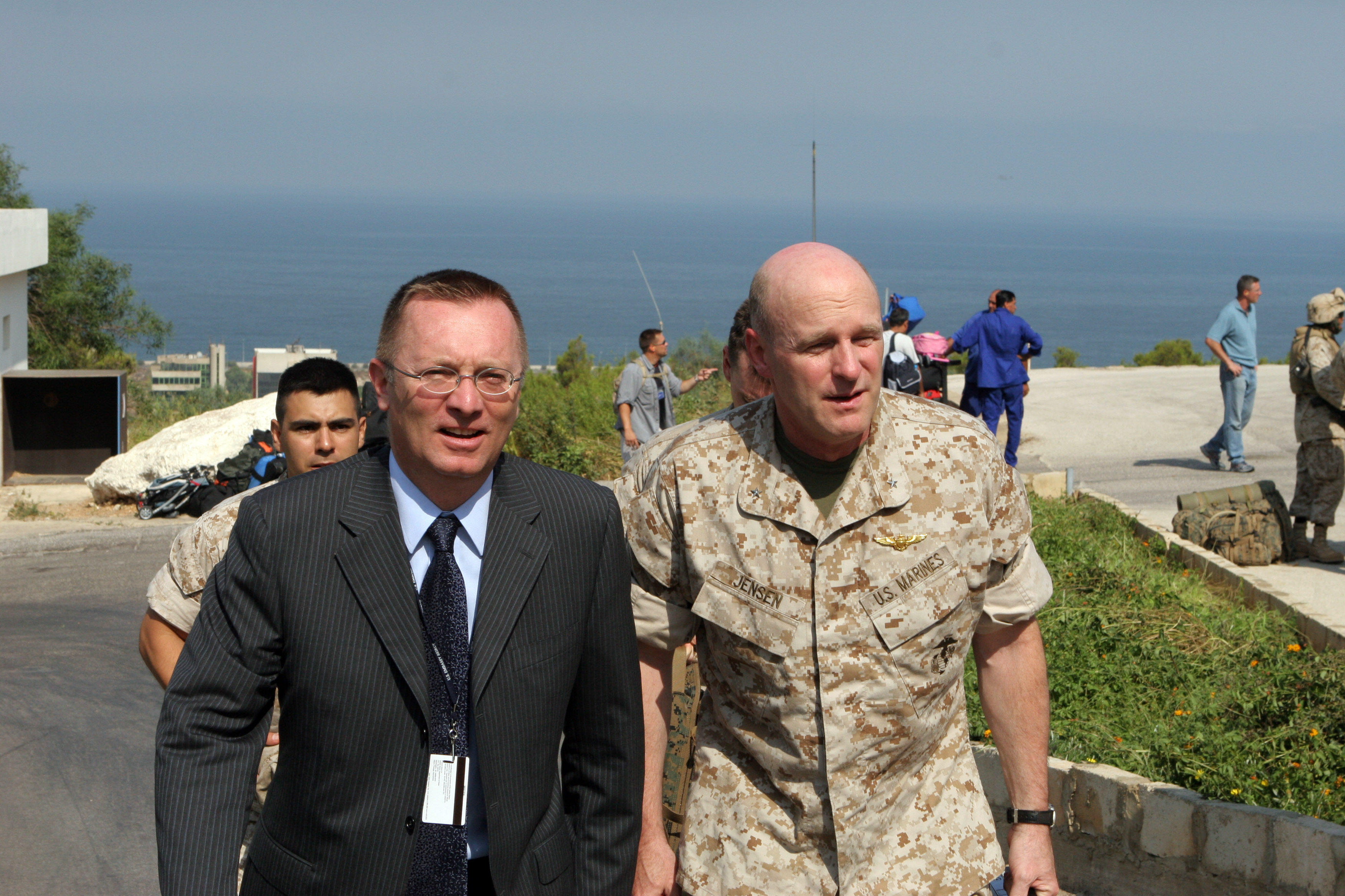 Beirut, Lebanon (July 19, 2006) – Commander, Task Force 59, Marine Corps Brig. Gen. Carl Jensen, walks with U.S. Ambassador to Lebanon Jeffrey D. Feltman at the U.S. Embassy in Beirut, Lebanon. At the request of the U.S. Ambassador to Lebanon and at the direction of the Secretary of Defense, the United States Central Command and the 24th Marine Expeditionary Unit (24 MEU) are assisting with the departure of U.S. citizens from Lebanon.